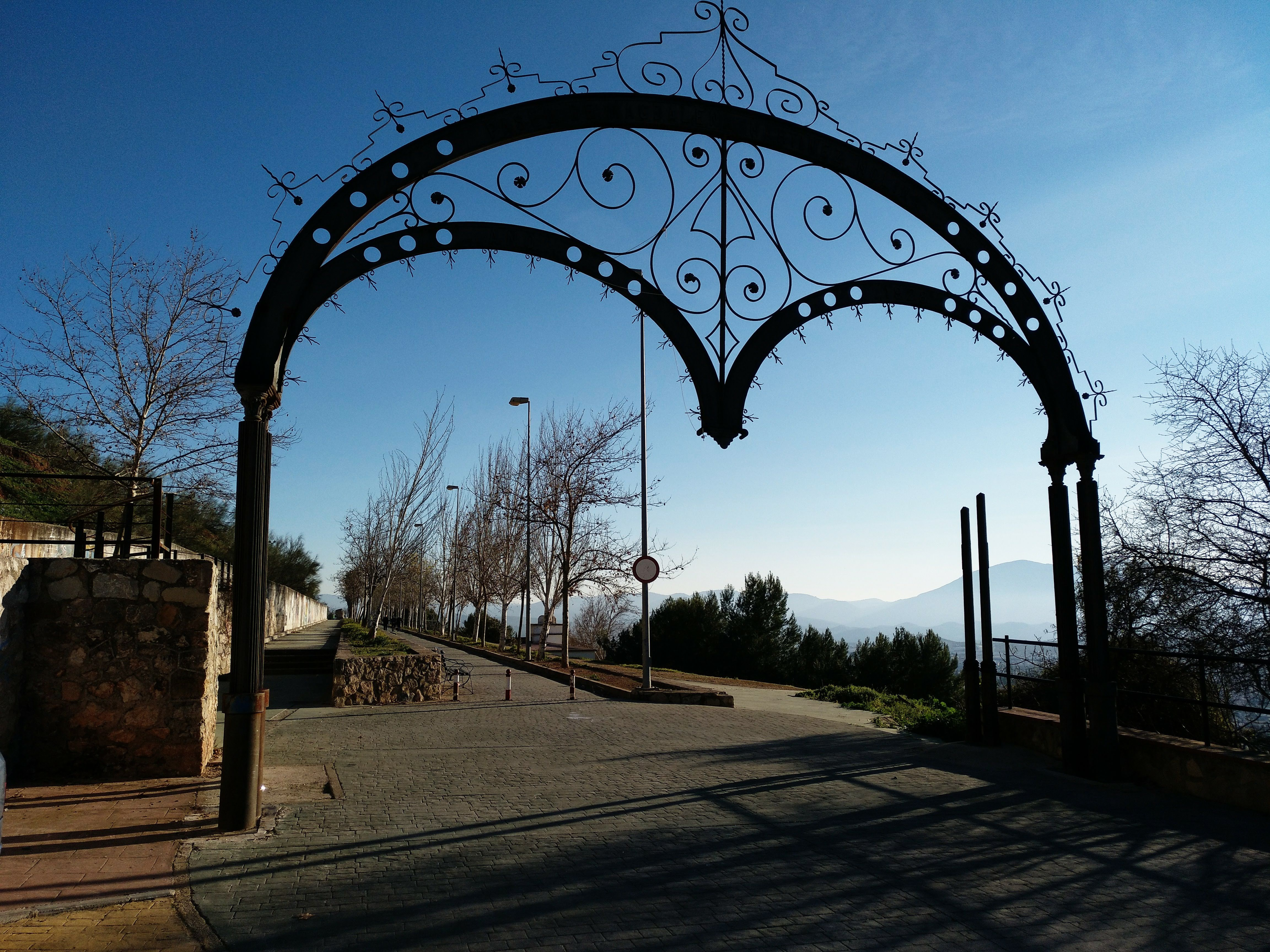 Calvario Promenade Arc of Martos, Jaén (Spain).